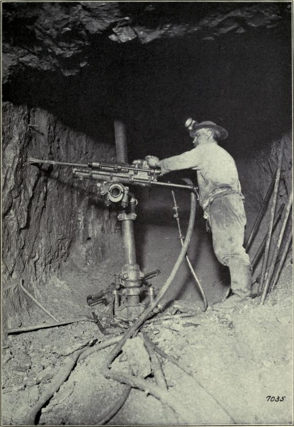 A one-man drill in operation, in connection with the Copper Country Strike of 1913–1914.